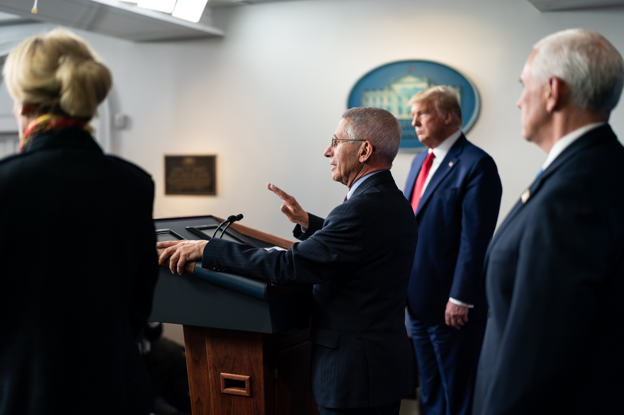 President Donald J. Trump, joined by Vice President Mike Pence, listen as Director of the National Institute of Allergy and Infectious Diseases Dr. Anthony S. Fauci takes questions from the press during a coronavirus update briefing Tuesday, March 31, 2020, in the James S. Brady Press Briefing Room of the White House. (Official White House Photo by Andrea Hanks)